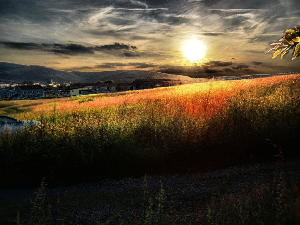 A composite image (from three exposures of the same scene), depicting the summer sunset across the Ehrenberg in Ilmenau, Ilm-Kreis, Thuringia, Germany.